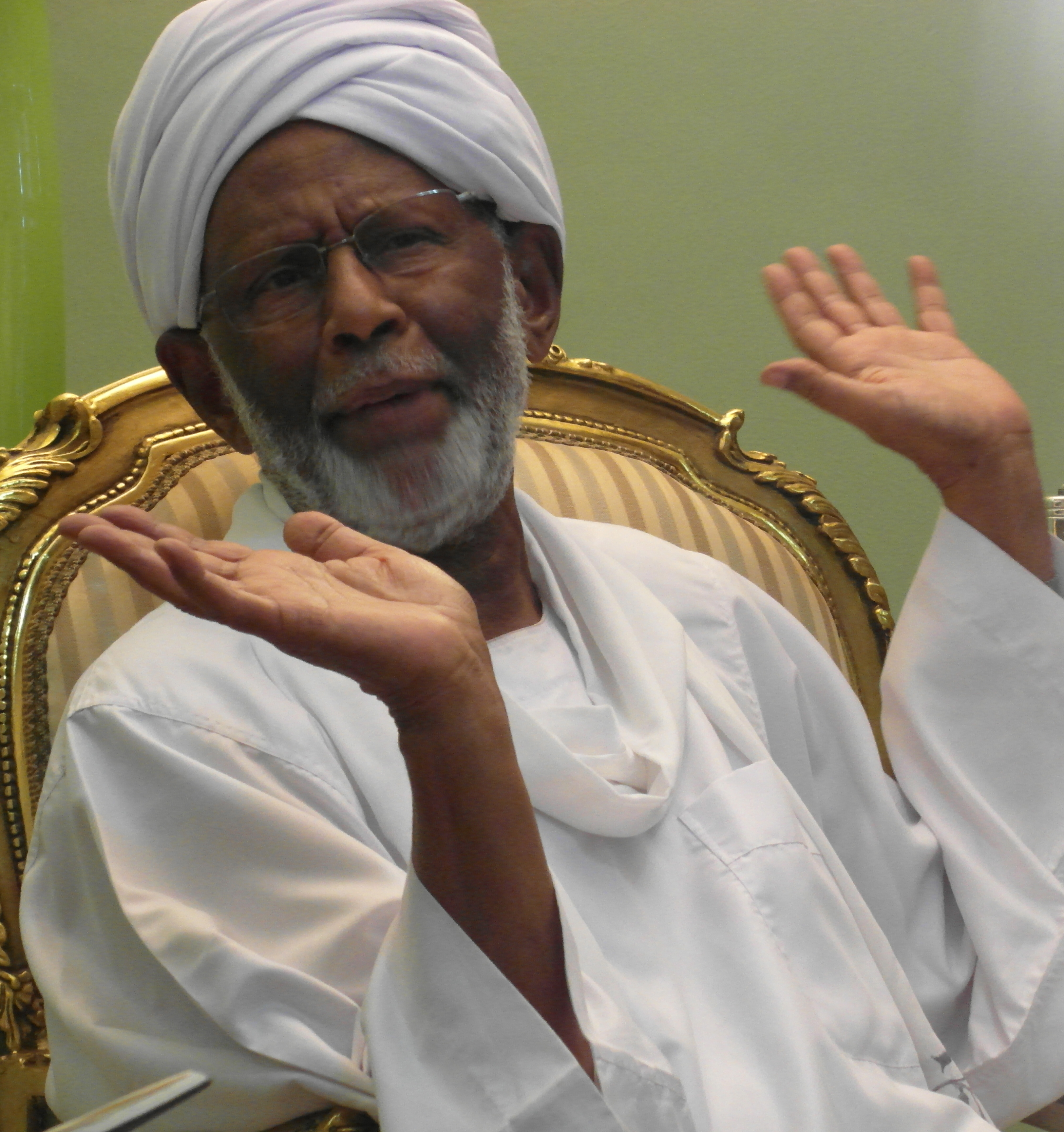 Hassan Al Turabi (1 February 1932 – 5 March 2016) , Islamist leader, in his private home in Shambat, Khartoum, Sudan, one year before his death